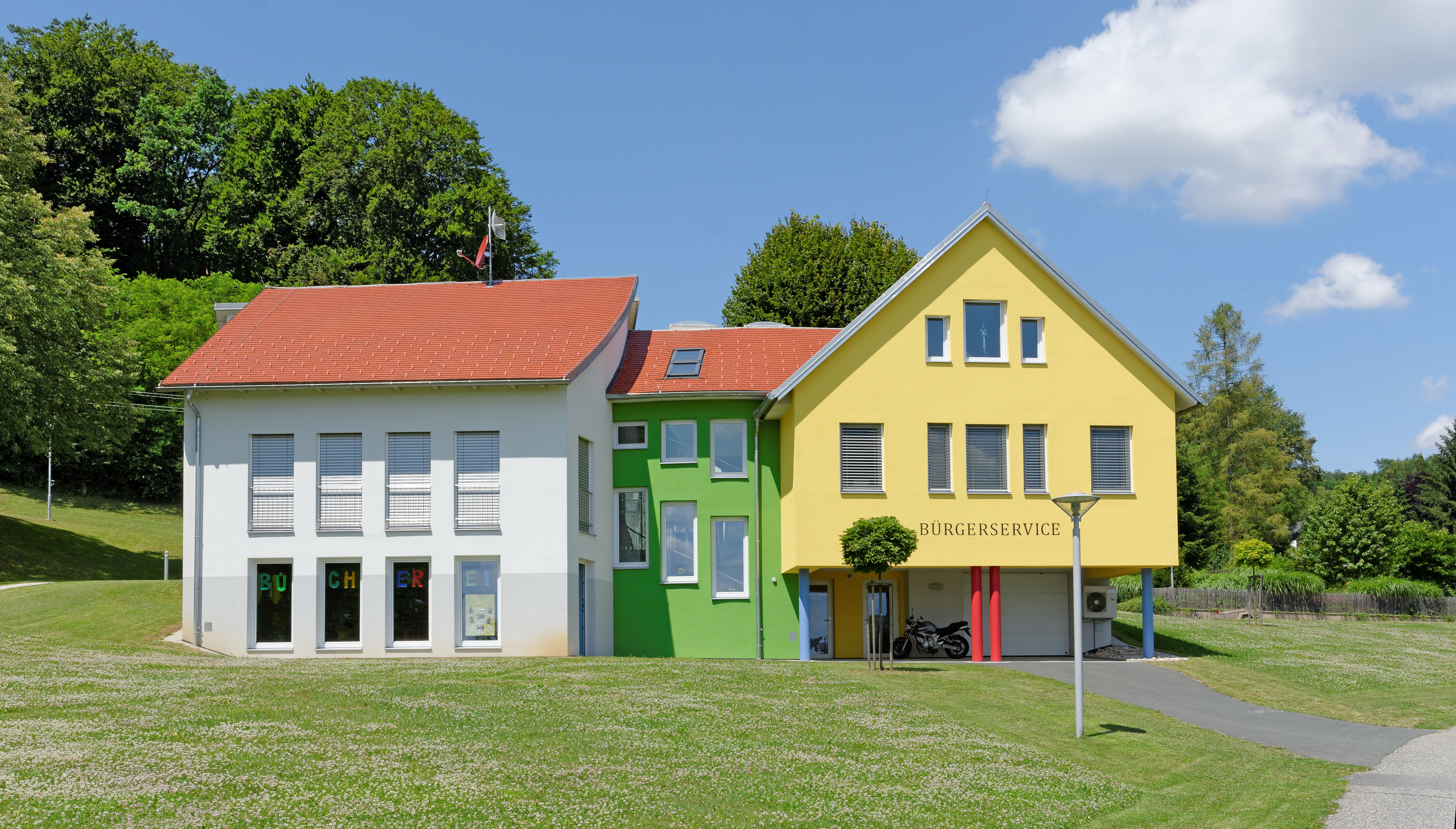 Municipal service center in Heiligenbrunn, Burgenland, Austria